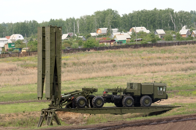 A TMM-6 bridgelayer during the eighth Exhibition of Military Equipment, Technologies and Armament for Land Forces -VTTV-Omsk-2009.